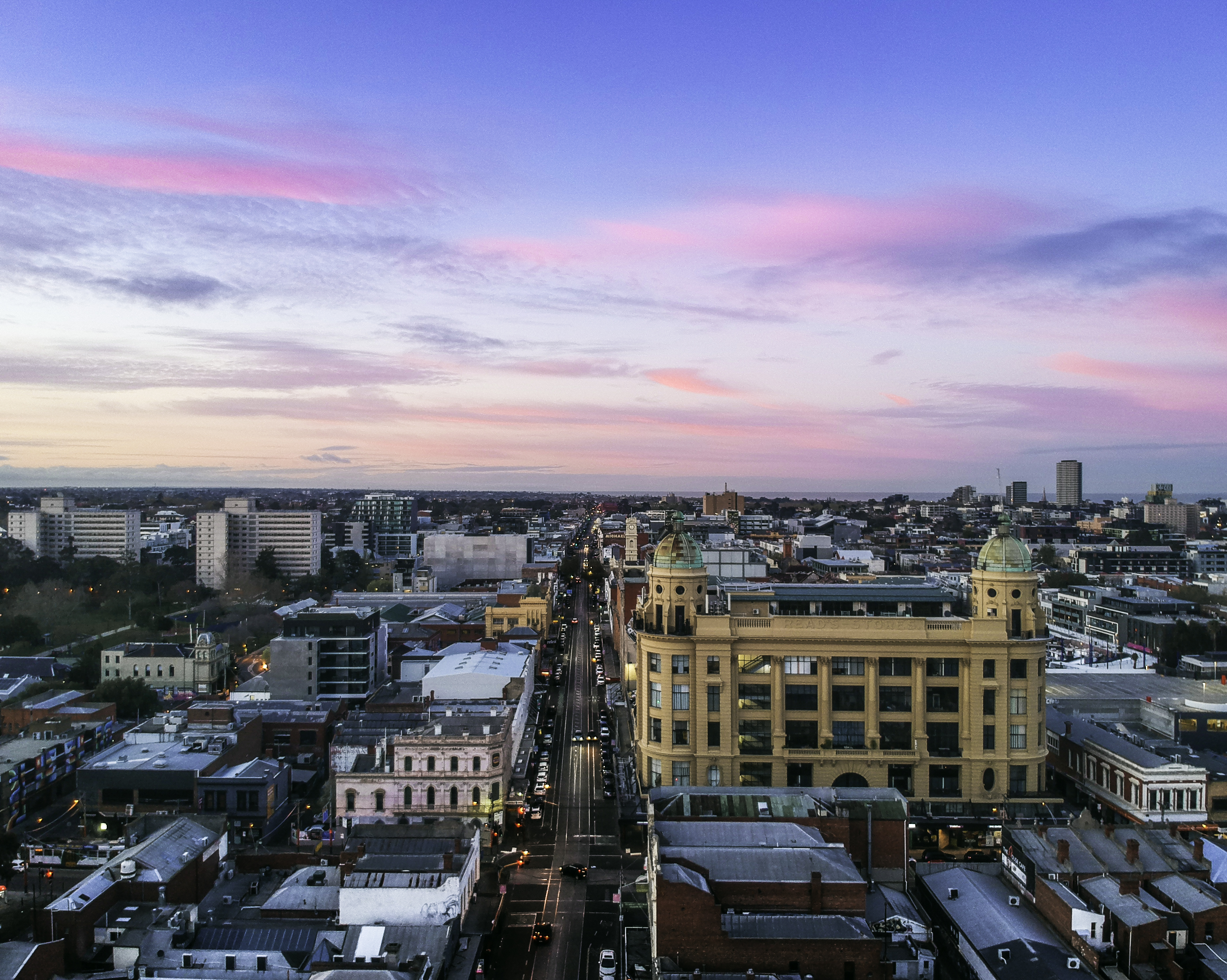 Chapel Street Precinct, image by @mainraw Photography